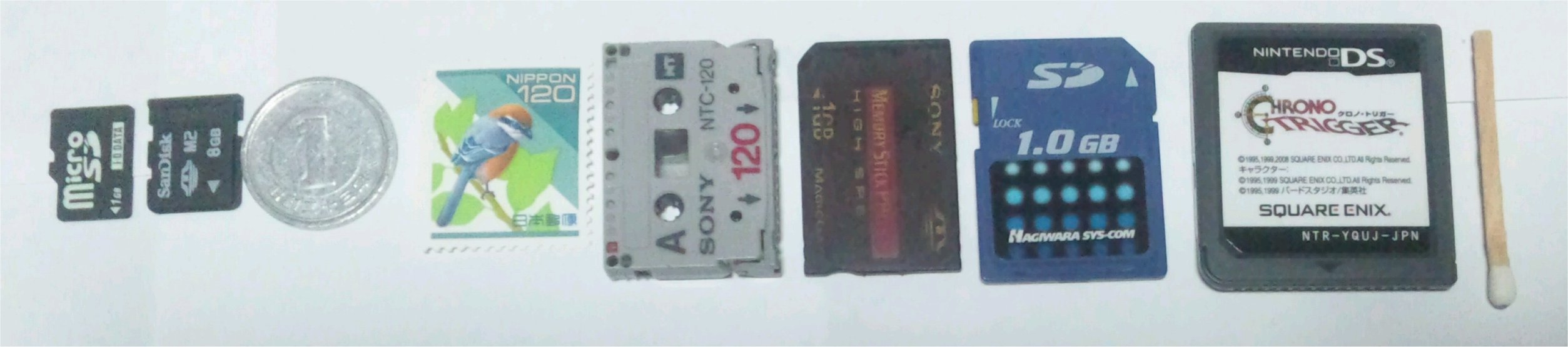 micro media